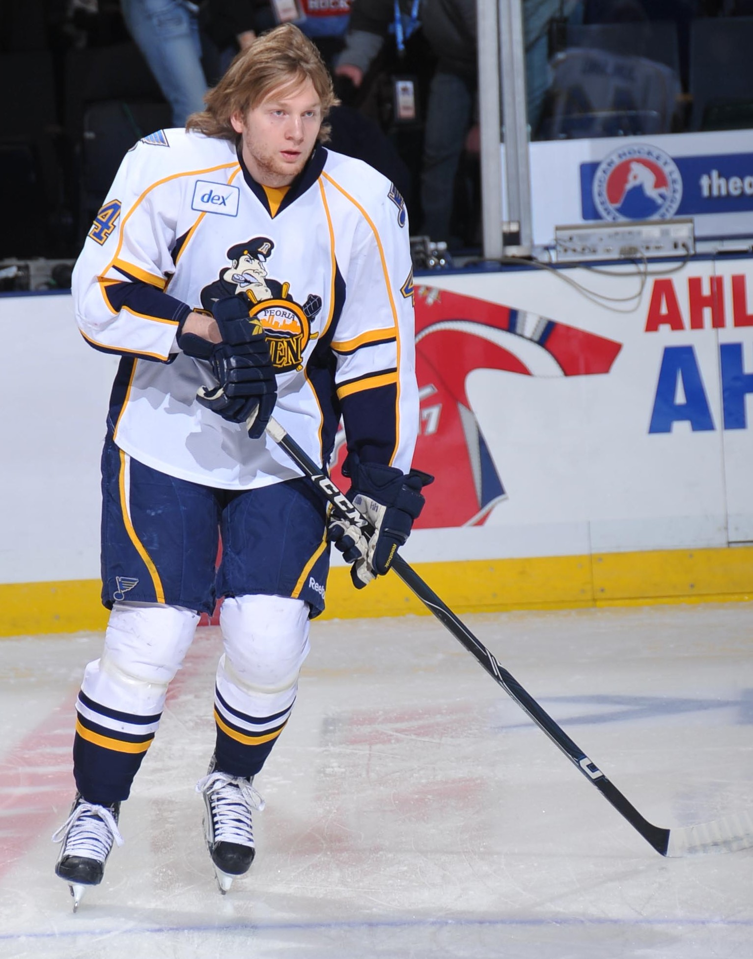 Jonas Junland during AHL skills competition 2010.